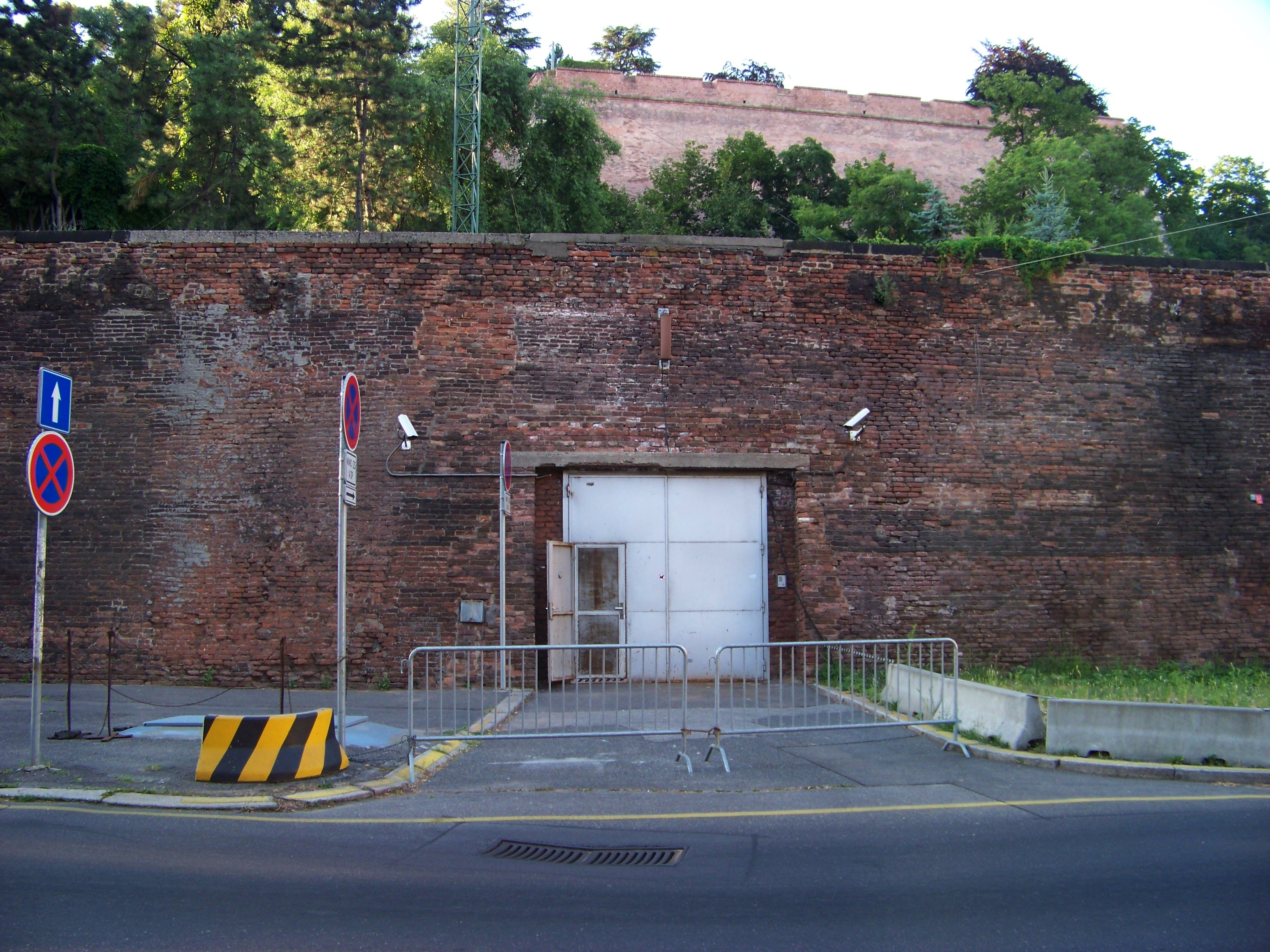 Prague-Hradčany, the Czech Republic. Nábřeží Edvarda Beneše and U Bruských kasáren, a door in the baroque city walls.